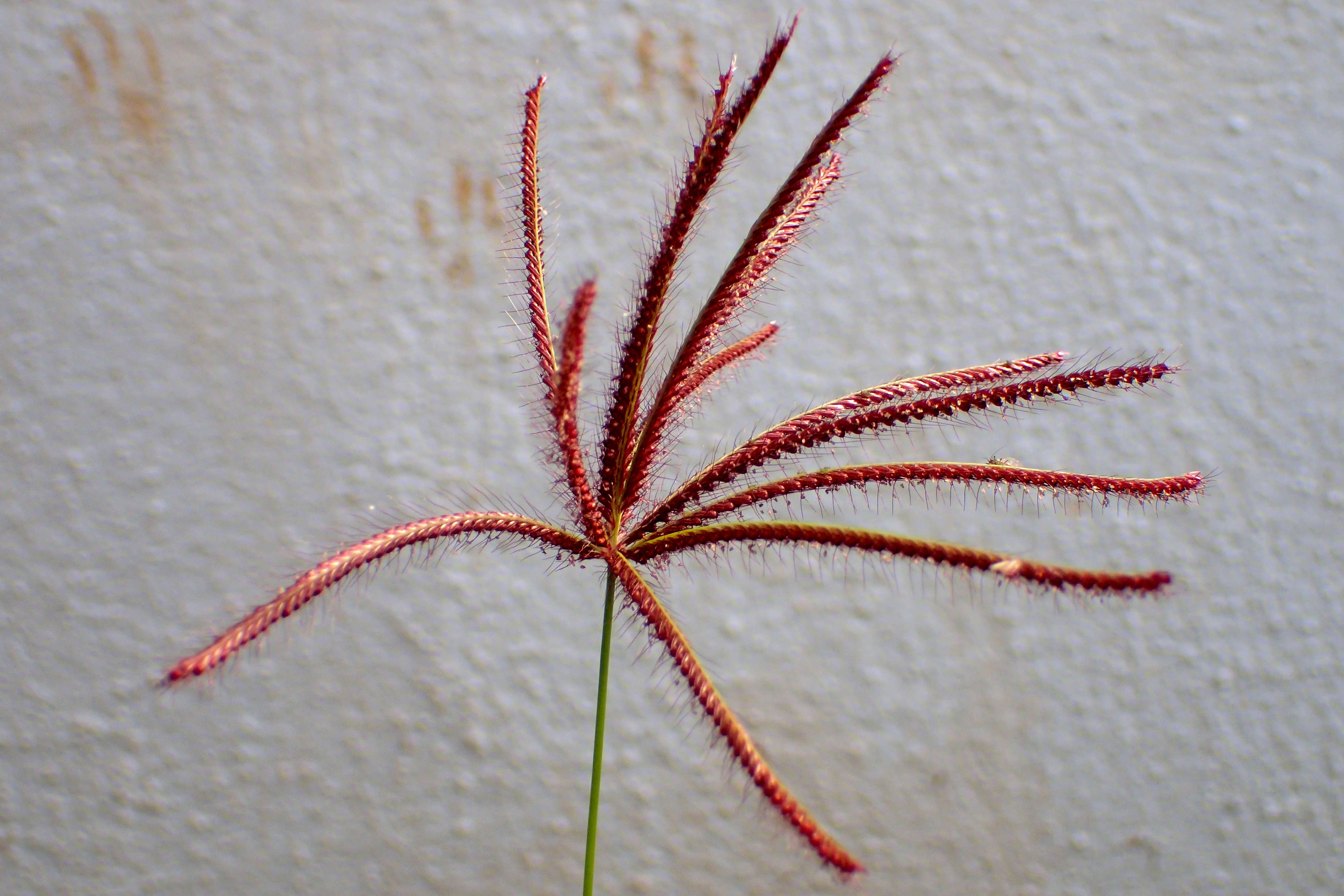 Cynodon dactylon in Callao Salvaje, Tenerife